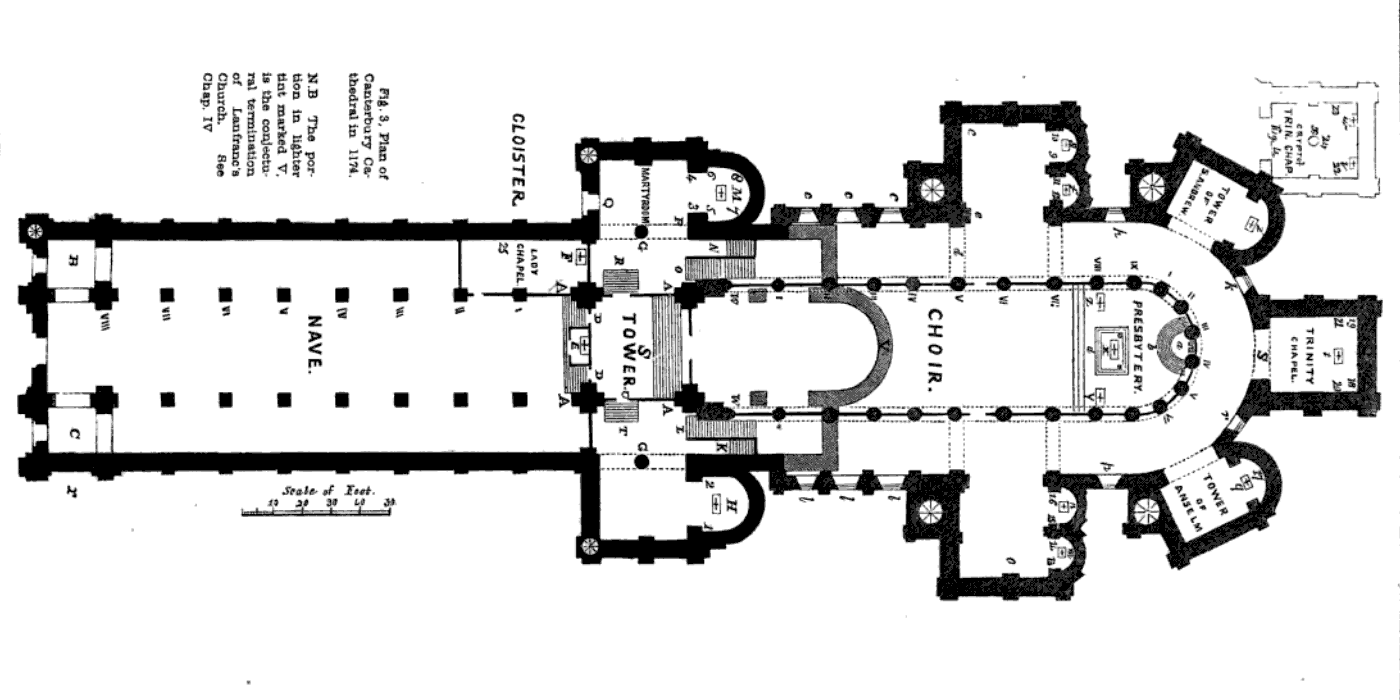 Fig. 3. Plan of Canterbury Cathedral in 1174. N.B. The portion in lighter tint marked V. is the conjectural termination of Lanfranc's Church. See Chap. IV.